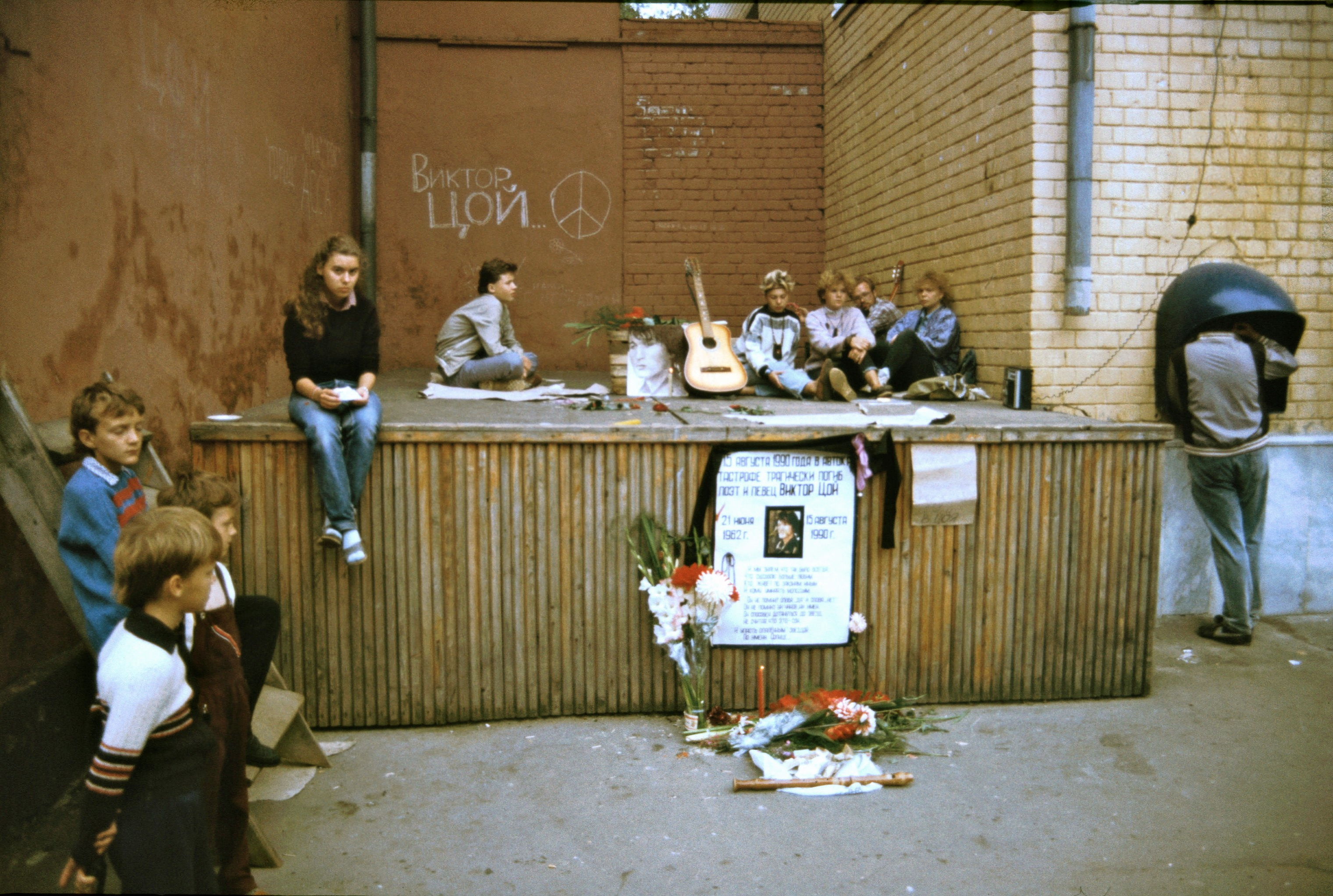 Spontaneous mourning ceremony after the death of musician Viktor Tsoi in Leningrad, 17 August 1990